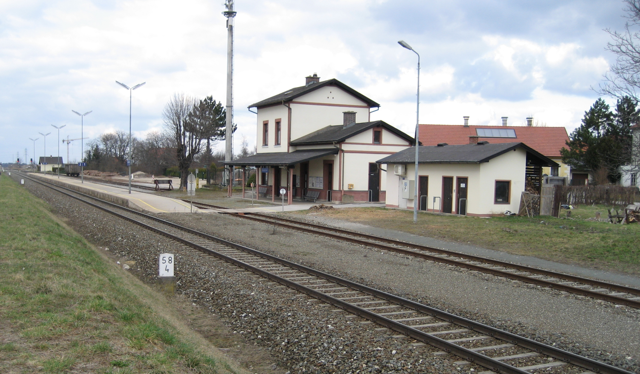 Lanzenkirchen train station in Lower Austria